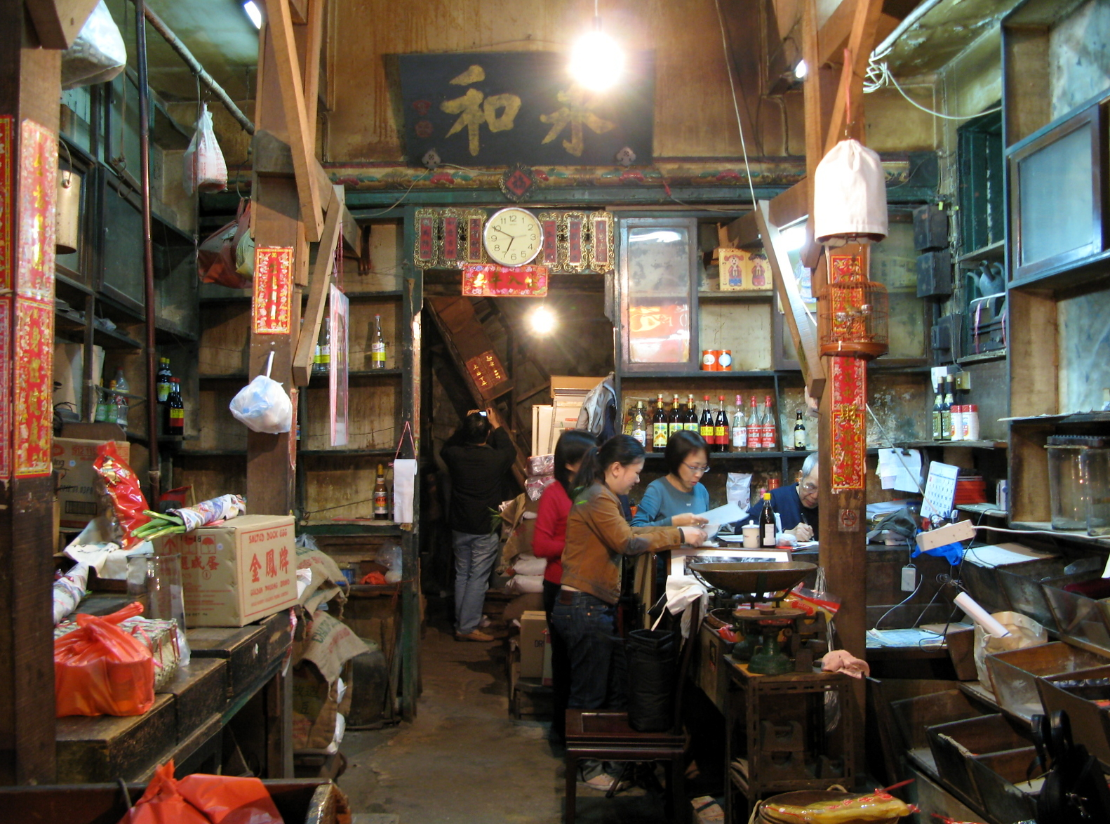 Wing Wo Ho 永和號